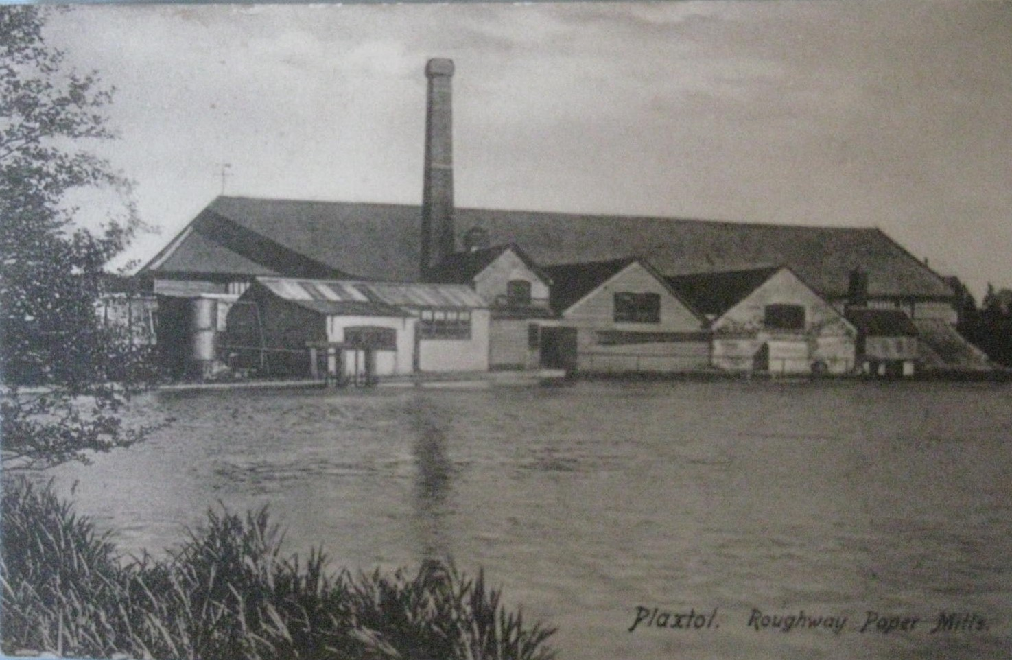 A picture postcard showing Roughway Paper Mill, Plaxtol, Kent. Card published by F. Frith & Co. Ltd., Reigate, Surrey. Card was posted from Hadlow on 4 June 1904.